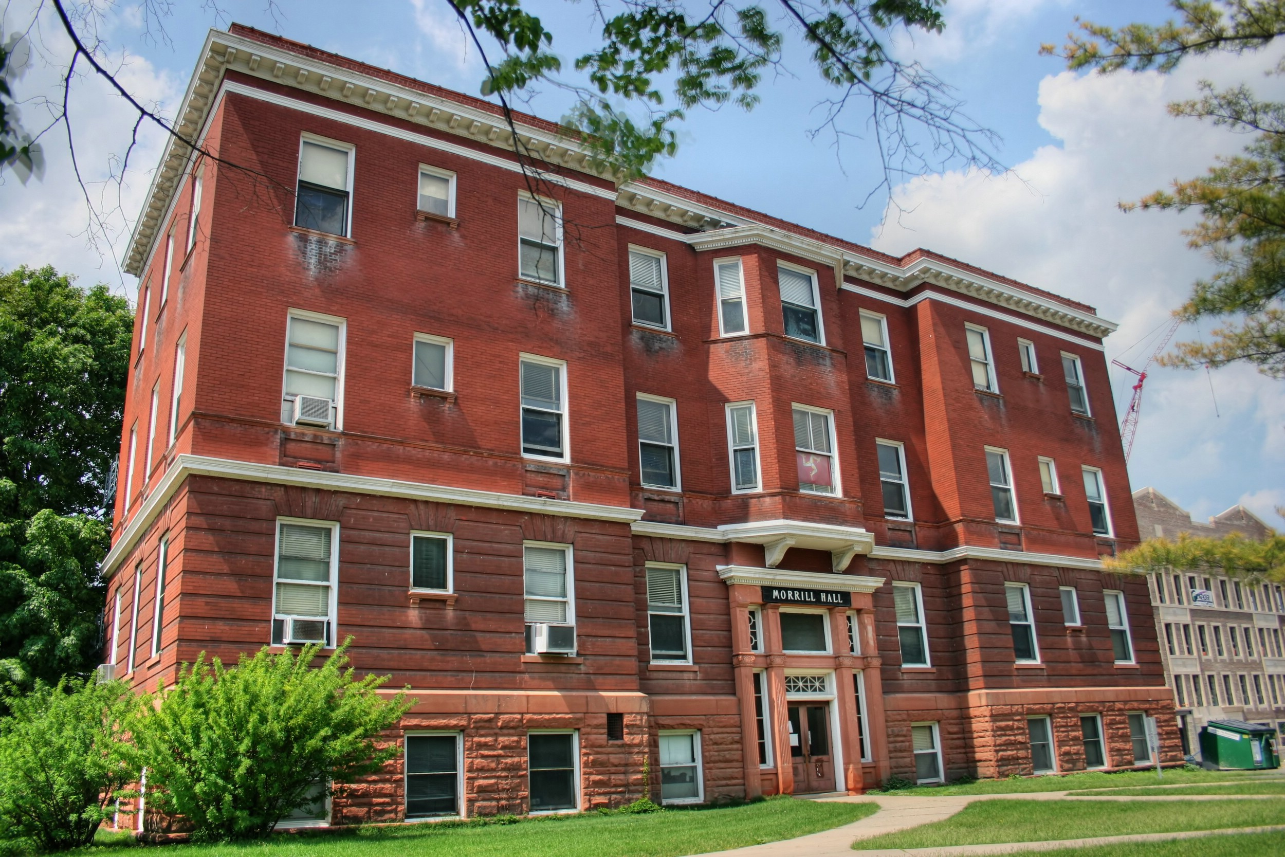 A photograph of Morrill Hall located on the Michigan State University campus in East Lansing, Michigan. This photograph is one of a series taken for Wikipedia by the submitter on May 28th, 2006 between the hours of 3pm and 6pm.